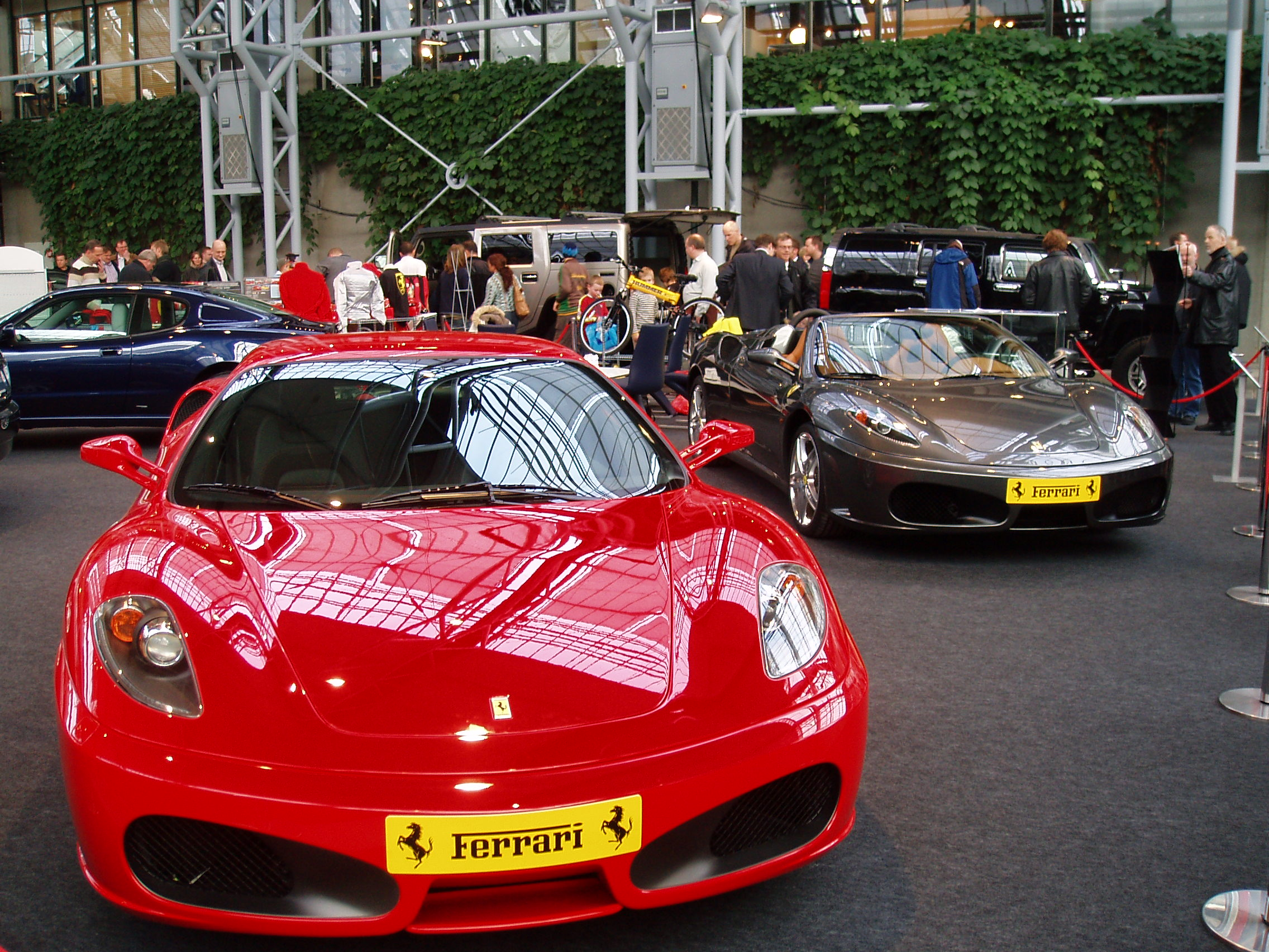 Ferrari F430 (foreground) and F430 Spider (right background) photographed at car show in Bella Center.